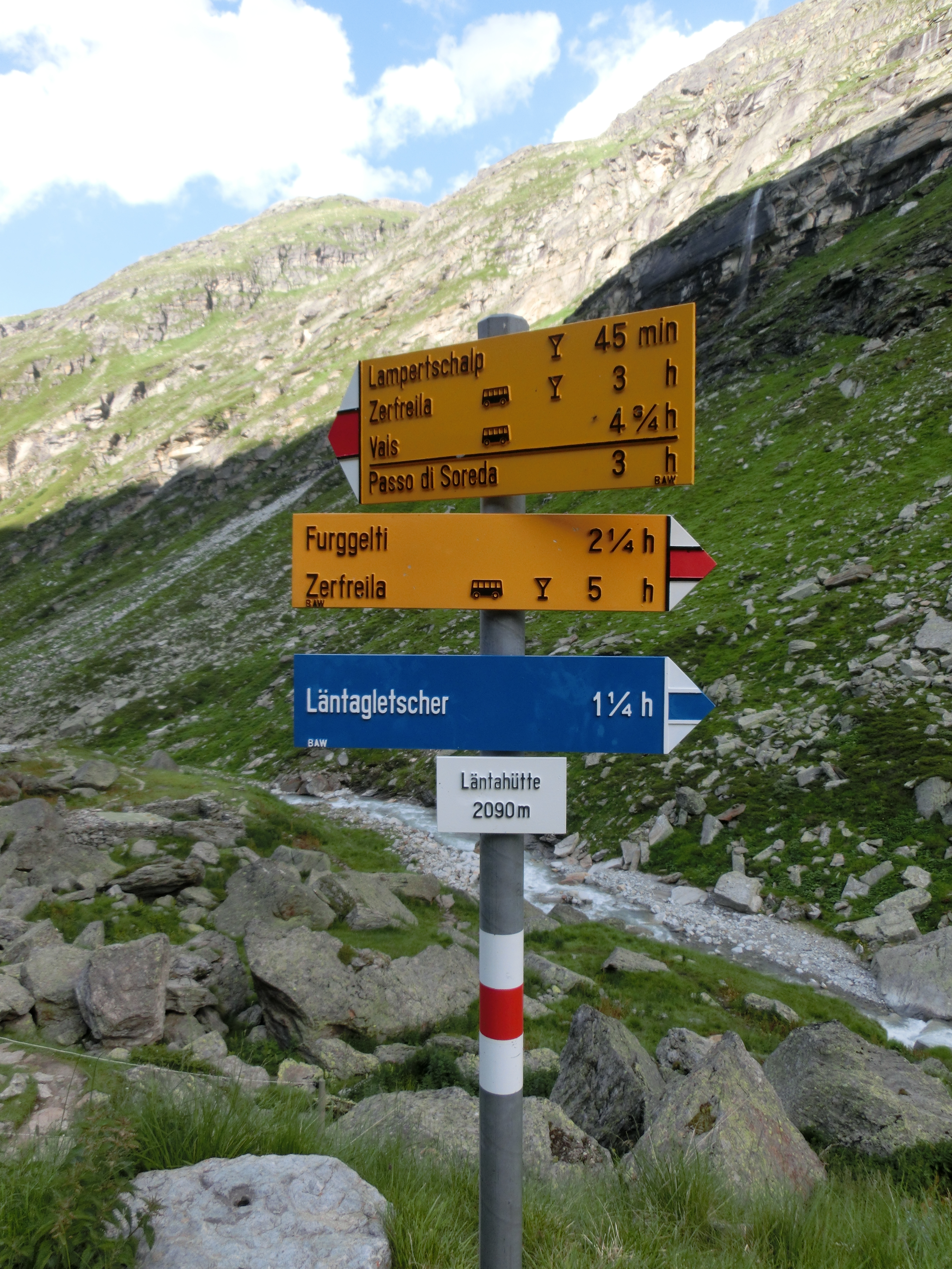 Fingerpost near Länta-Hütte, Vals, Grison, Switzerland Rumantsch: Tafla tar la hetta da Länta, Vals, Grischun, Svizra